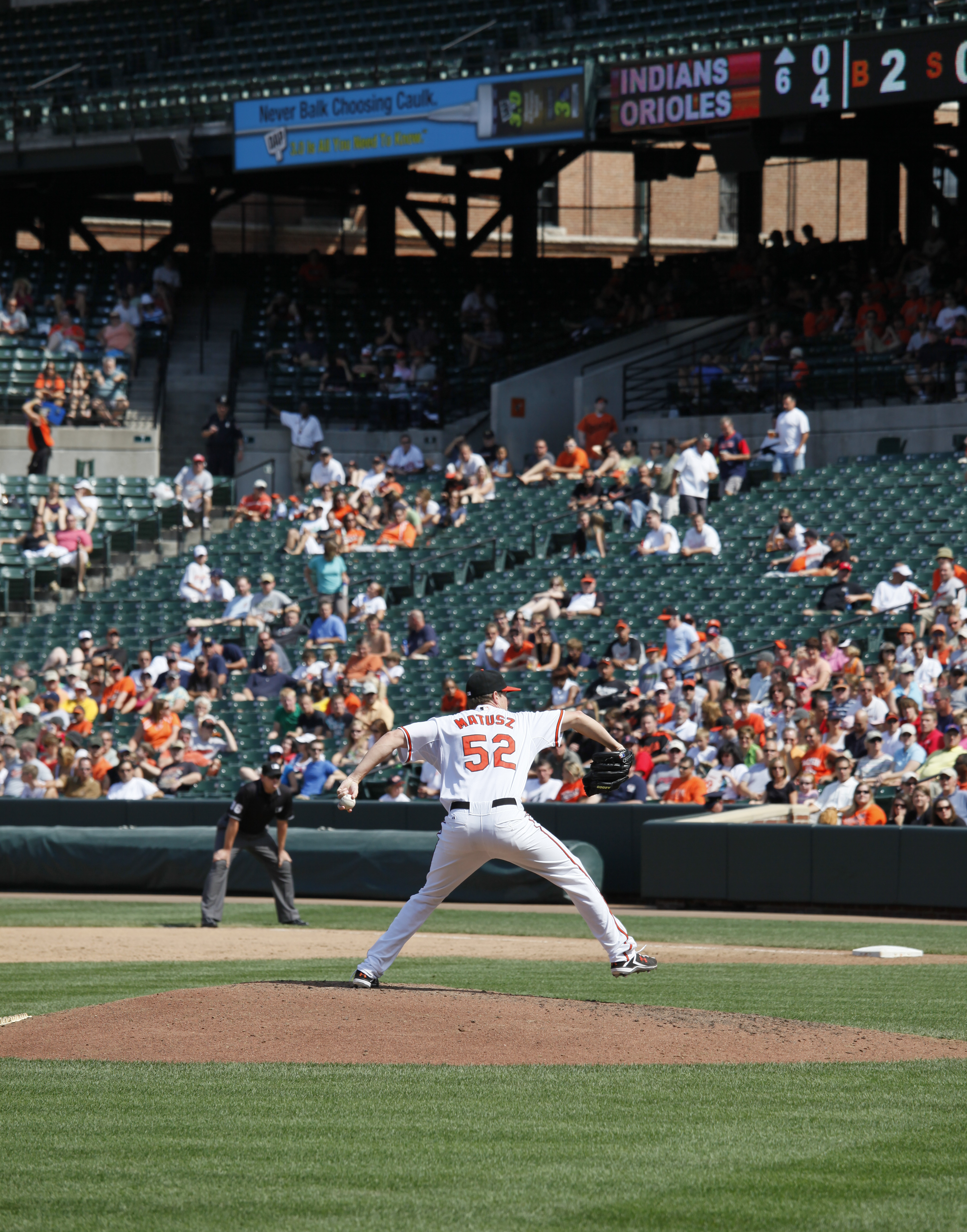 Brian Matusz at Baltimore Orioles v/s Cleveland Indians.